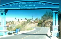 Entrance to Chiquimula, Guatemala.